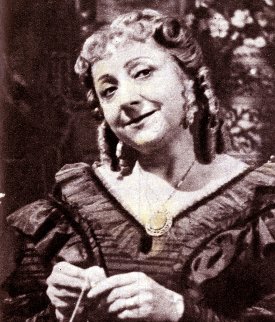 screenshot from the TV comedy Anima allegra (1958); published in Radiocorriere TV magazine